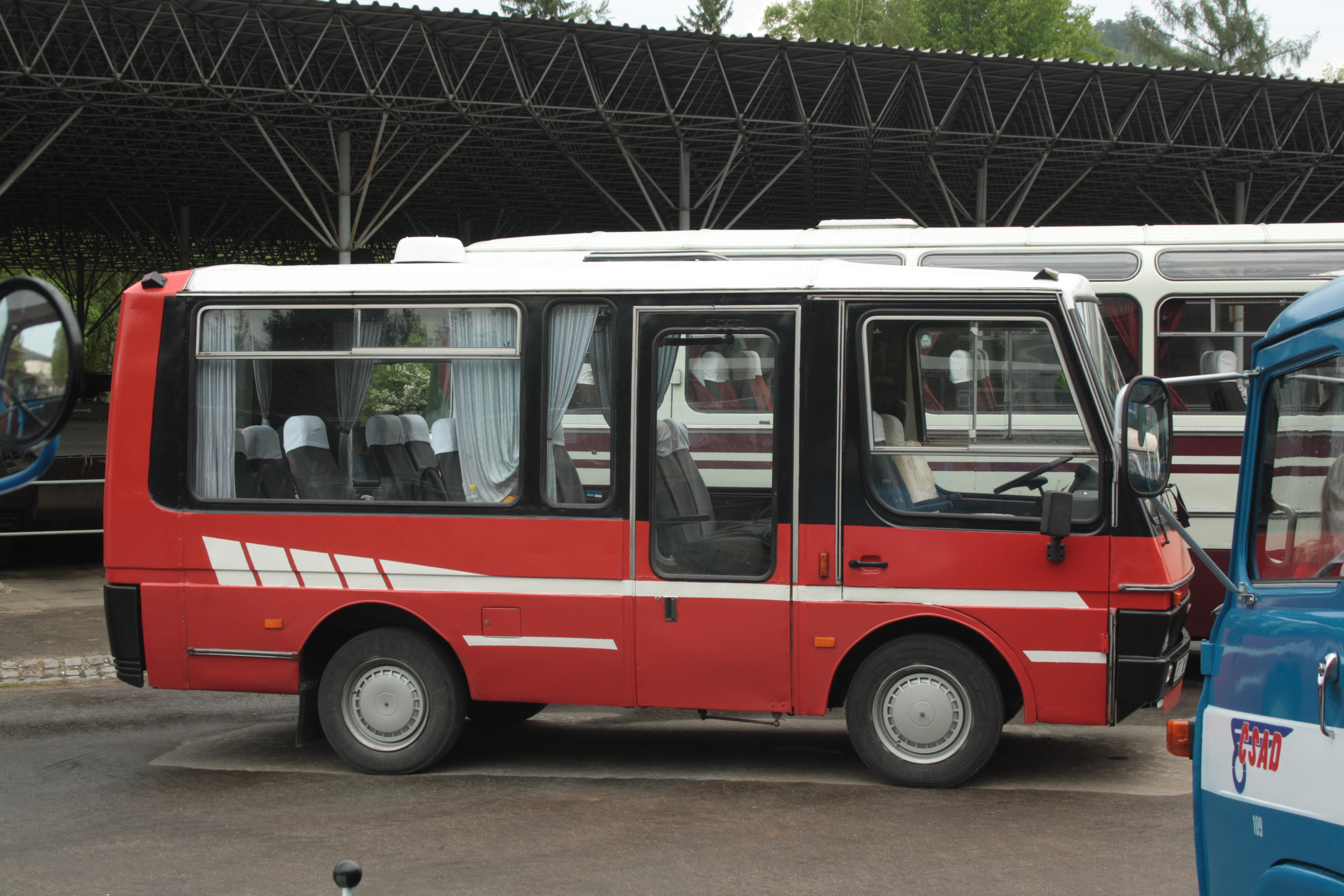 Yugoslav bus Avia TAZ Neretva shown on opening show of 15th season of military museum in Lešany, Central Bohemian Region, CZ This photograph was taken with a DSLR from WMCZ's Camera grant. This picture was taken and/or got within the scope of the 'Acquiring scientific and specialized pictures' grant.